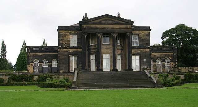 The Mansion - Gotts Park This was built by Benjamin Gott and is now used as the Club House for the Gotts Park Municipal Golf Club.